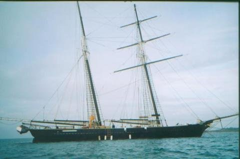 Source: Ashley M. Daniels Shenandoah lying on her anchor in Vineyard Haven's Outer Harbor